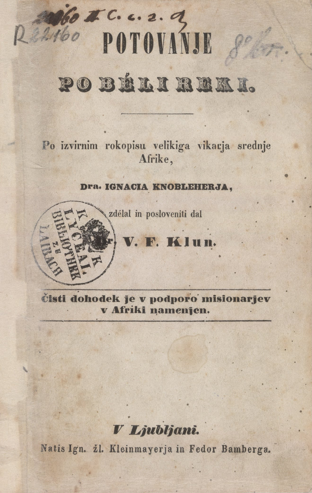 Cover of the Potovanje po Béli reki.